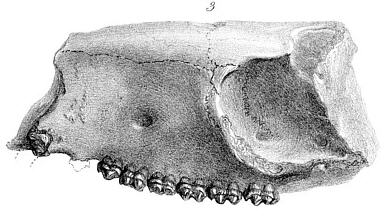 Owen’s illustration of the second Hyracotherium fossil found.